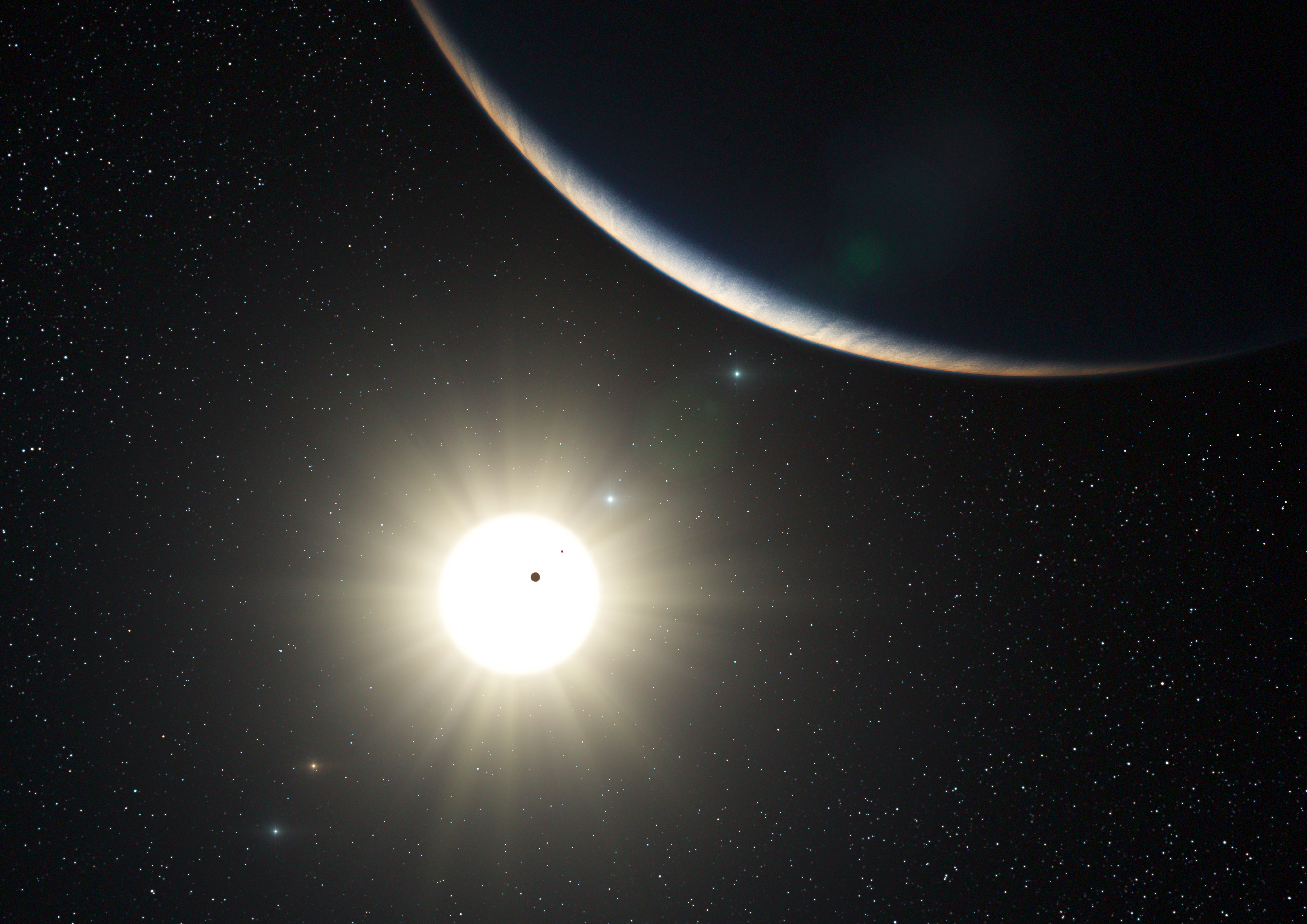 This artist’s impression shows the remarkable planetary system around the Sun-like star HD 10180. Observations with the HARPS spectrograph, attached to ESO’s 3.6-metre telescope at La Silla, Chile, have revealed the definite presence of five planets and evidence for two more in orbit around this star. This system is similar to the Solar System in terms of number of planets and the presence of a regular pattern in the sizes of the orbits. If confirmed the closest planet detected would be the lightest yet known outside the Solar System, with a mass that could be only about 1.4 times that of the Earth.